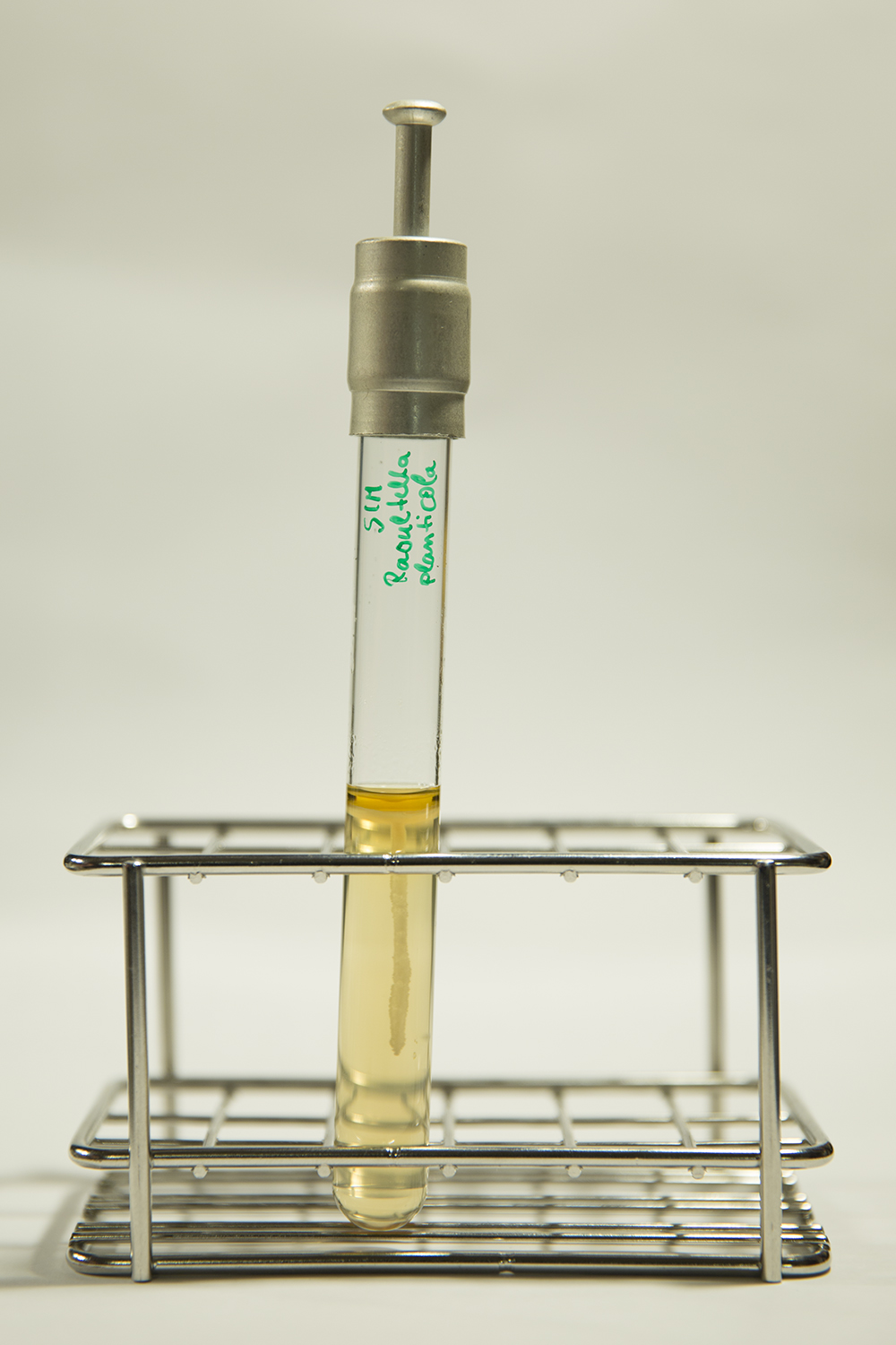 Raoultella planticola in SIM agar, showing a negative result for H2S production, a negative result for the indole test (after Kovac's reagent has been added), and a negative result for motility.